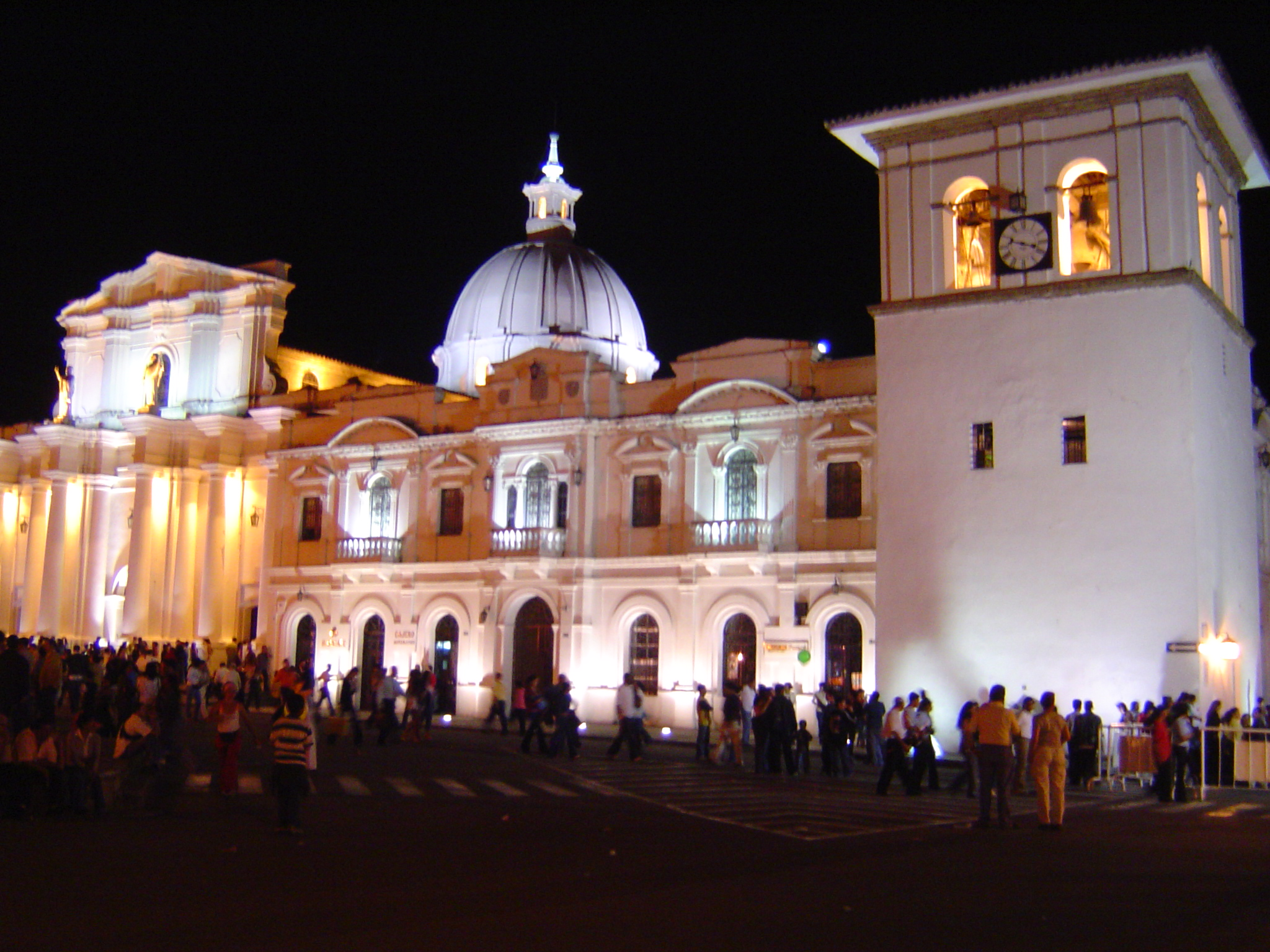 Clock Tower (Popayan, Colombia)